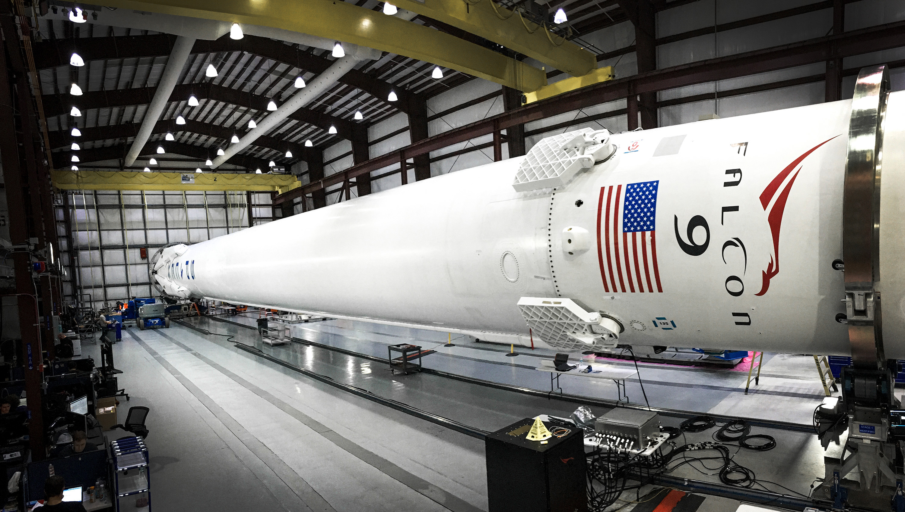 SpaceX is currently aiming for a December 20th launch of the Falcon 9 rocket, carrying 11 satellites for ORBCOMM. The launch is part of ORBCOMM's second and final OG2 Mission and will lift off from SpaceX's launch pad at Cape Canaveral Air Force Station in Florida. This mission also marks the first time SpaceX will attempt to land the first stage of the Falcon 9 rocket on land. The landing of the first stage is a secondary test objective. The launch webcast is targeted to begin at 5:05pm PT with liftoff at 5:29pm PT. The launch webcast can be viewed at For updates, visit and